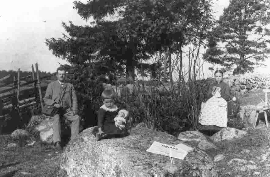 Finnish writer Fredrik Aalto (left), along with his wife Ida (right) and his daughter Hertta (middle) e sua moglie, Ida Wave (a destra) e sua figlia onda Hearts (al centro), in a school's courtyard in Uusikaupunki in 1890.